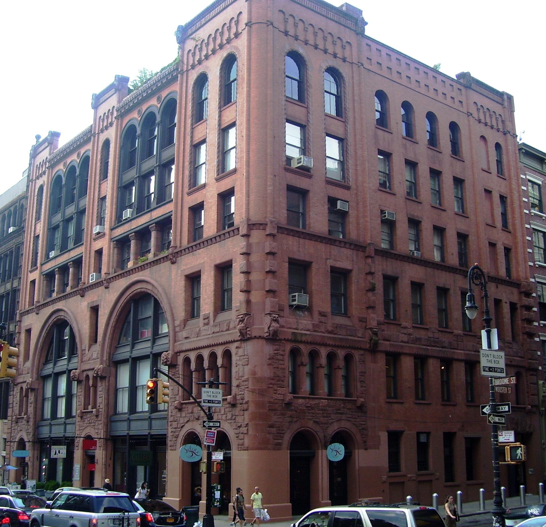 484 (484-490) Broome Street on the corner of Wooster Street (#59) in the SoHo neighborhood of Manhattan, New York City was built in 1890-91 and was designed by Alfred Zucker in the Romanesque Revival style as a warehouse. It is located within the SoHo - Cast Iron Historic District. (Source: "NYCLPC SoHo - Cast-Iron Historic District Designation Report")